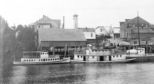 Coquille, Coos County, Oregon Coquille waterfront ca/ 1908-1914 with the boats "Wolverine", "Favorite", and "Wilhelmina" at dock. The Wolverine was built in Coos Bay in 1908 and the Coquille was also built in 1908.